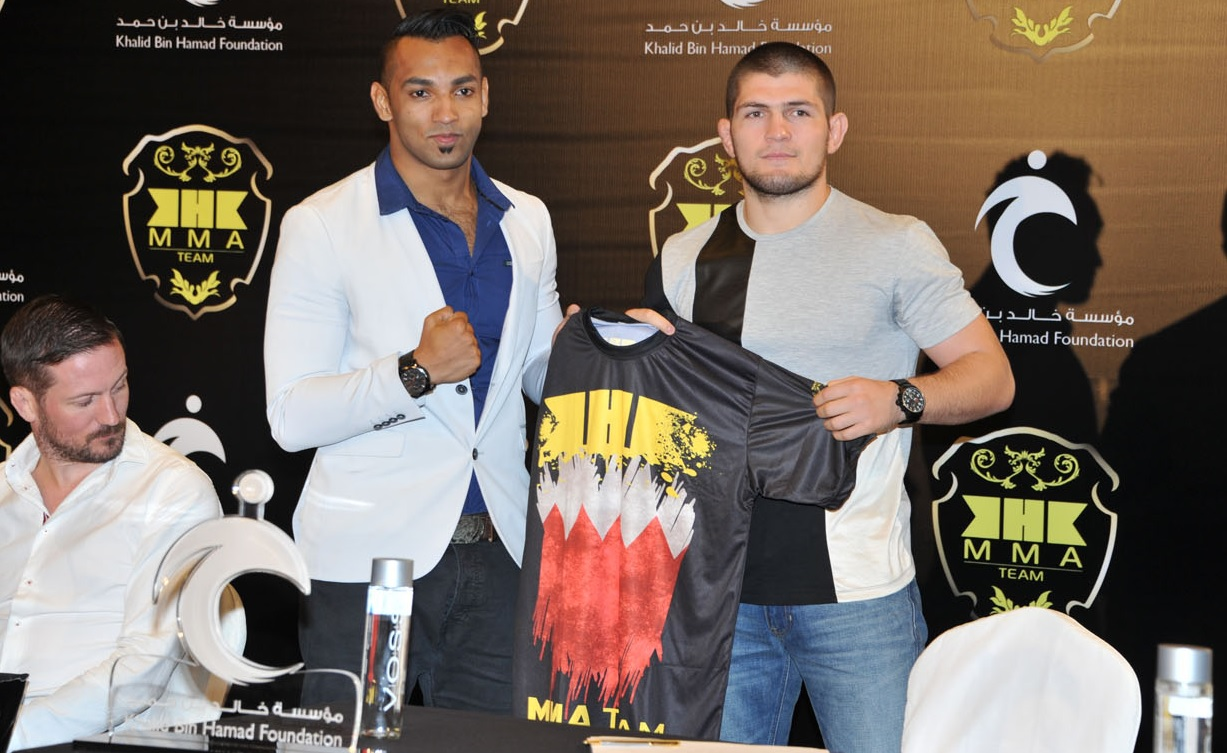 KHK MMA Press Conference